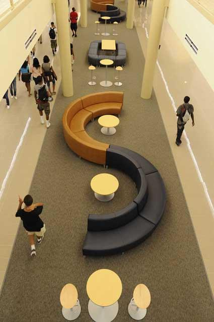 Sleek furnishings and comfortable seating areas at the school.